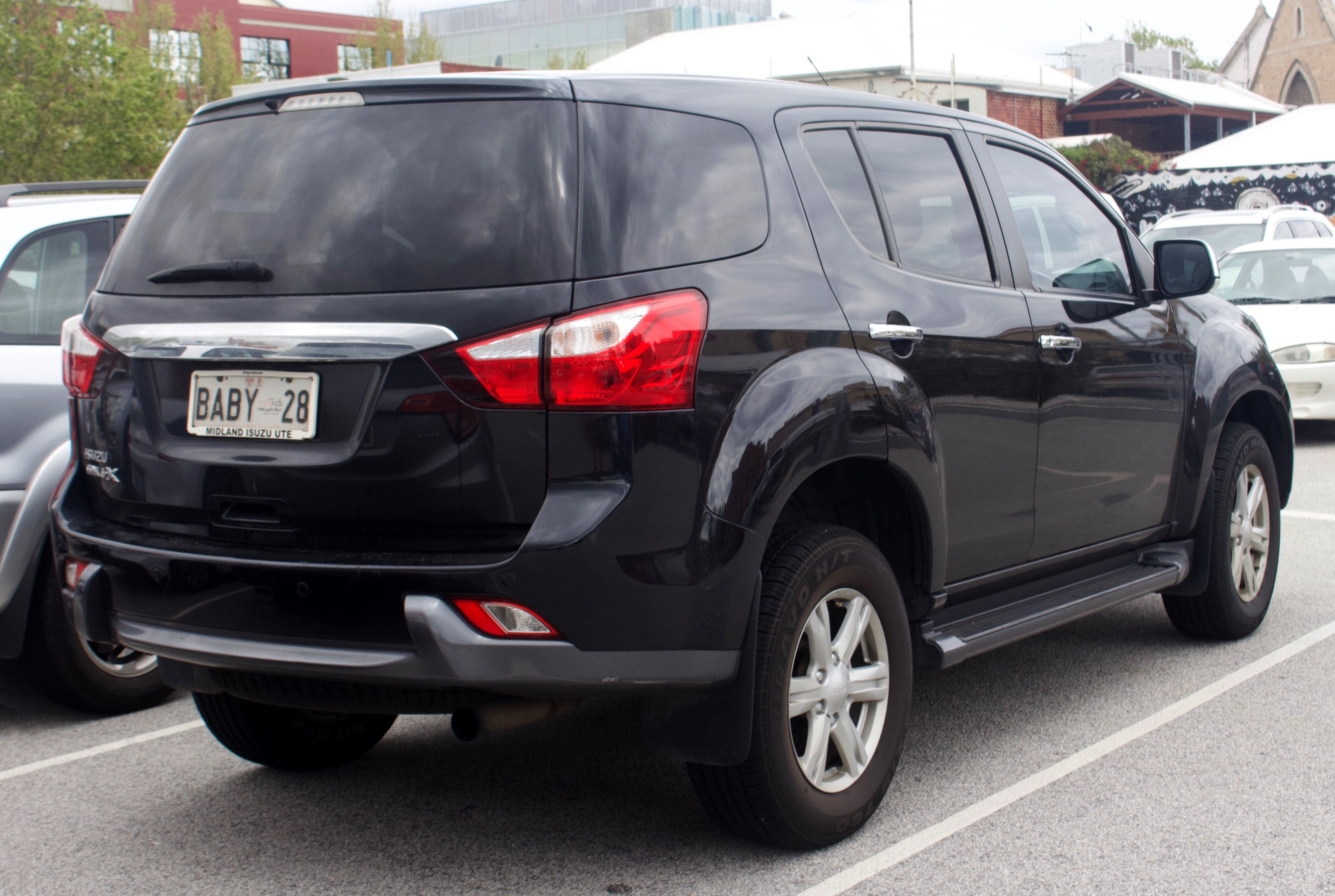 2013-2017 Isuzu MU-X LS-U 4x2 wagon. Photographed in Fremantle, Western Australia, Australia.